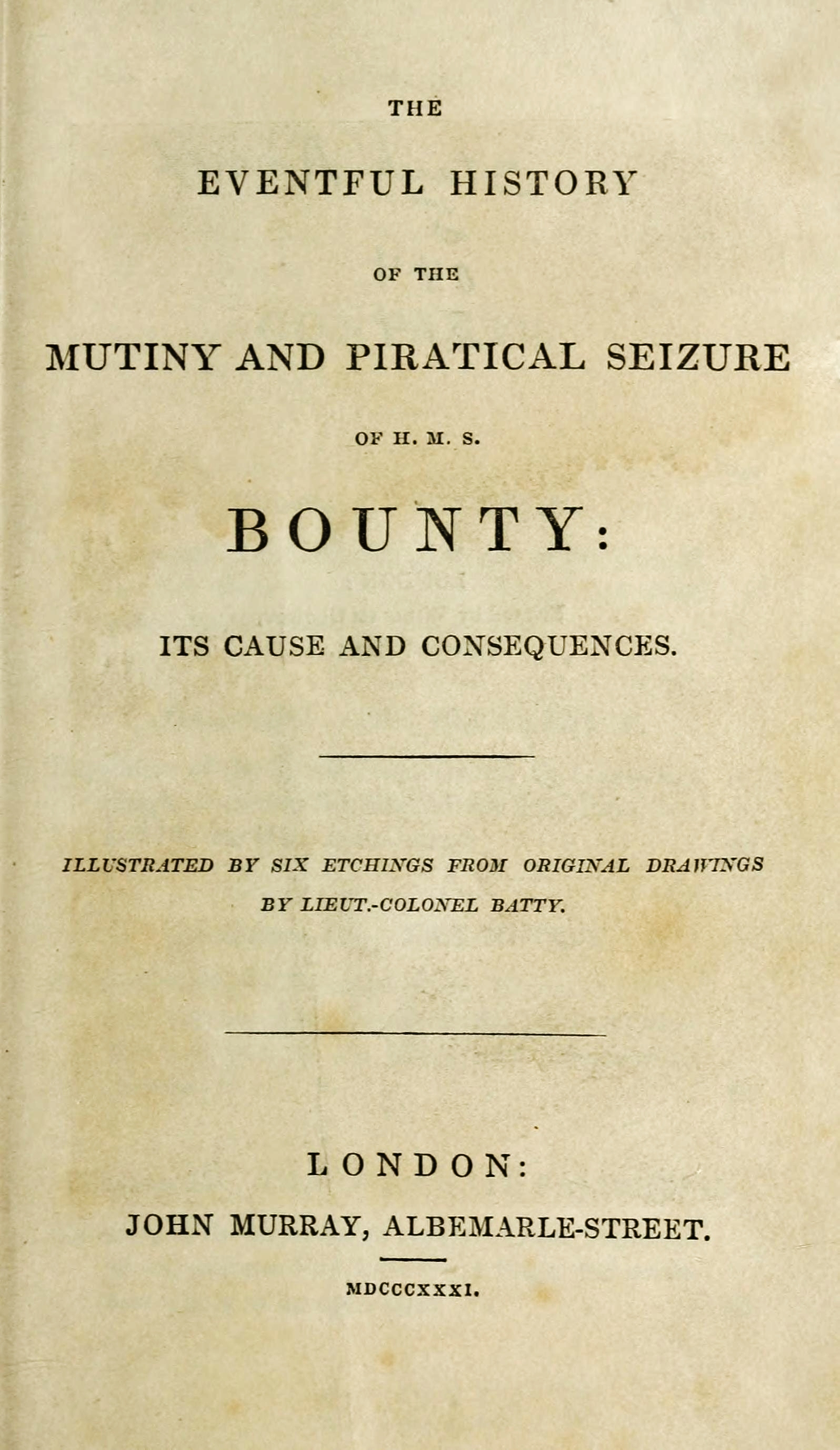 1st edition title page